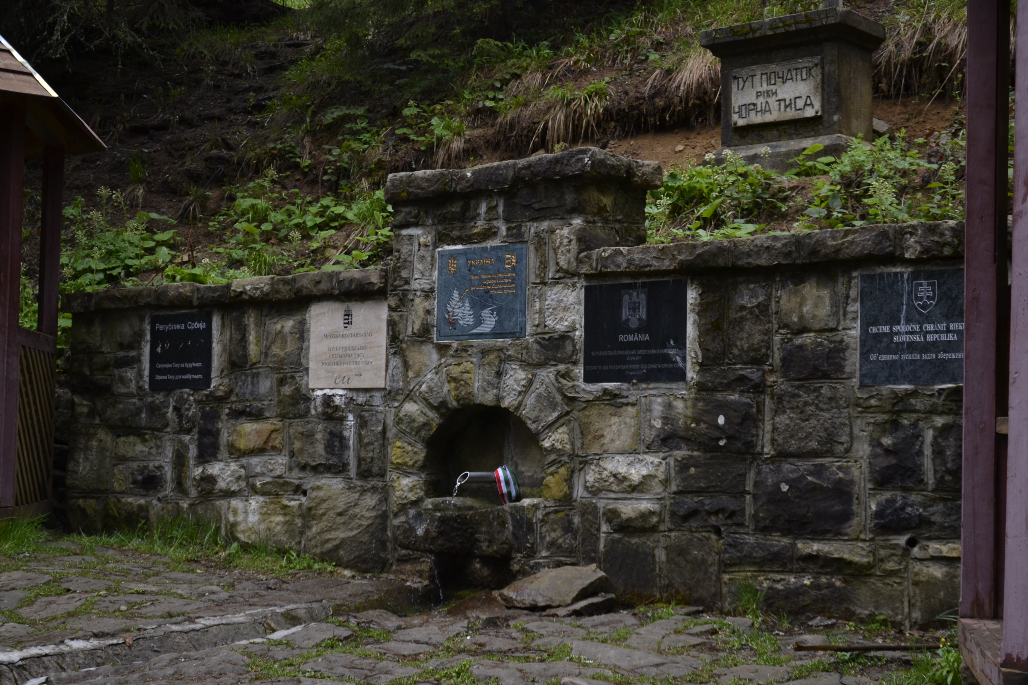 The source of Chorna Tisa